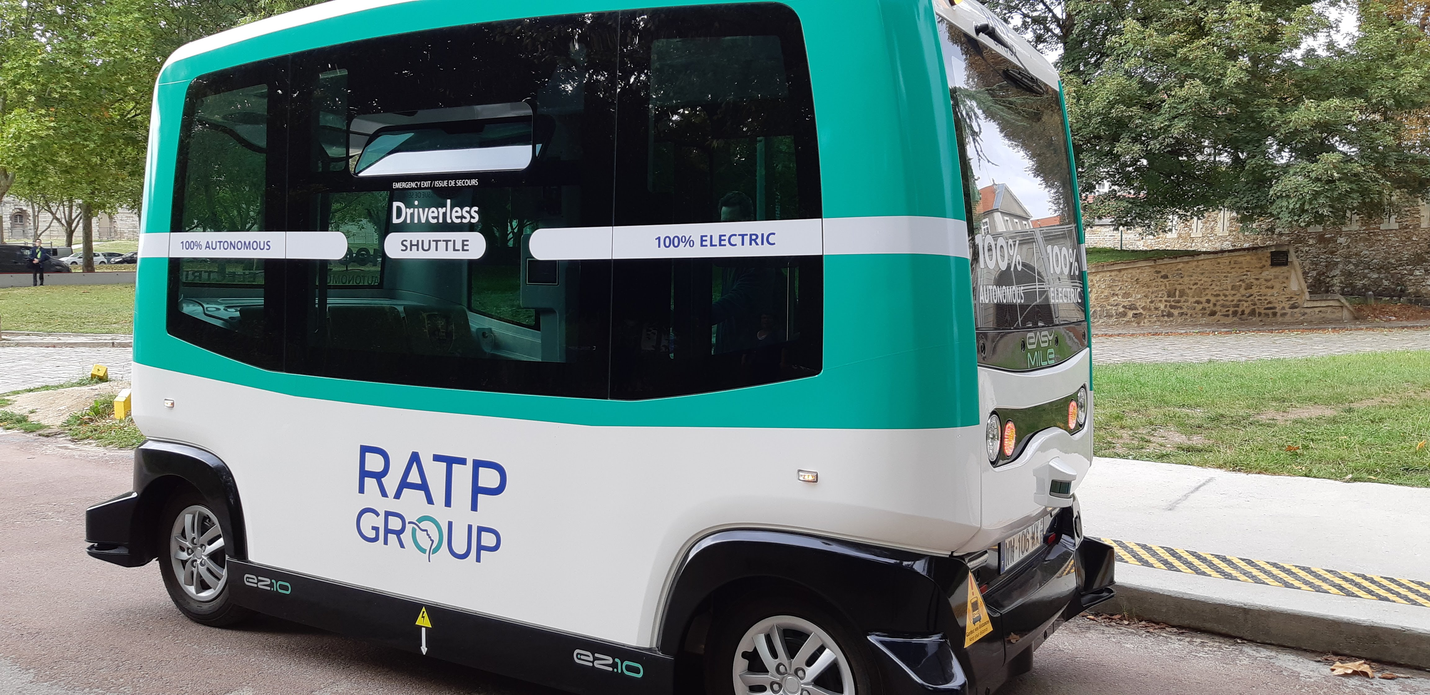 navette autonome RATP Château de Vincennes